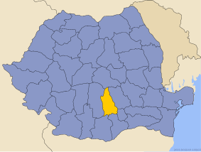 Location of Dâmbovița County in Romania.